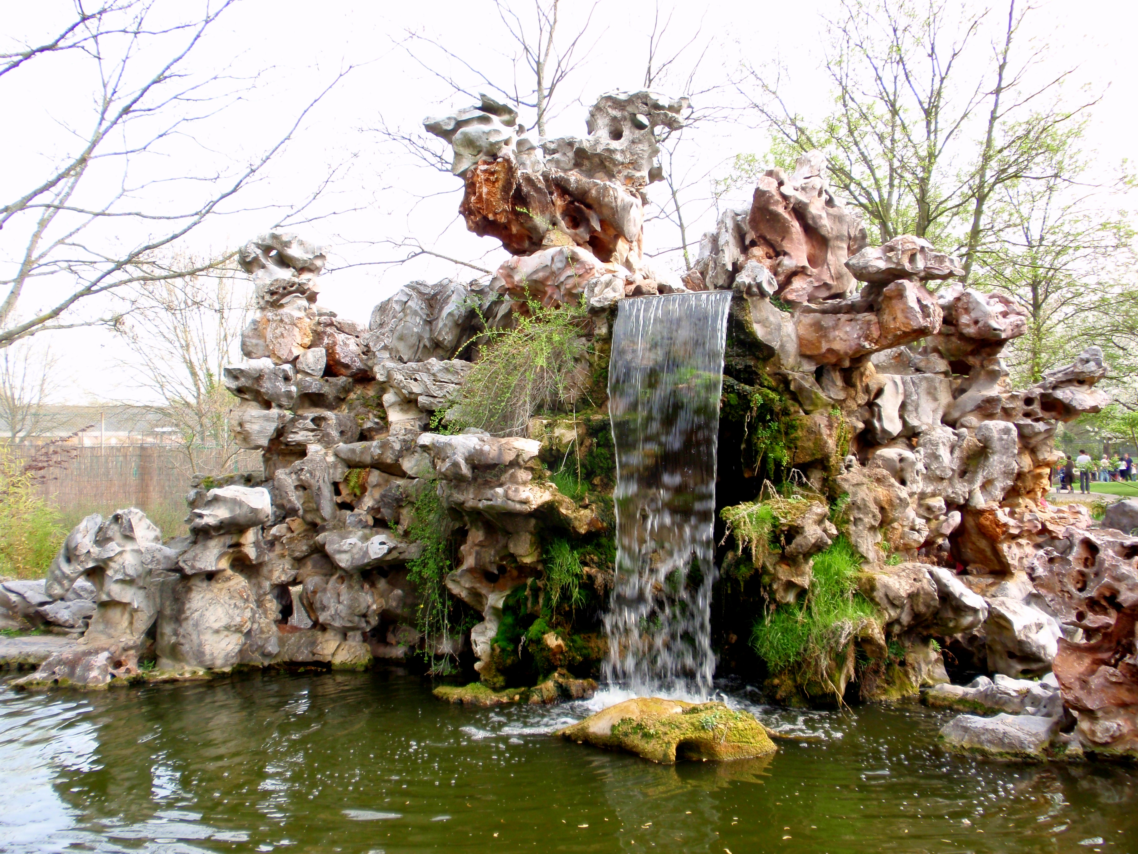 Miniature waterfall in the chinese tea-pavillion "Duojingyuan" ("garden of many views") in the Luisenpark Mannheim (Germany)